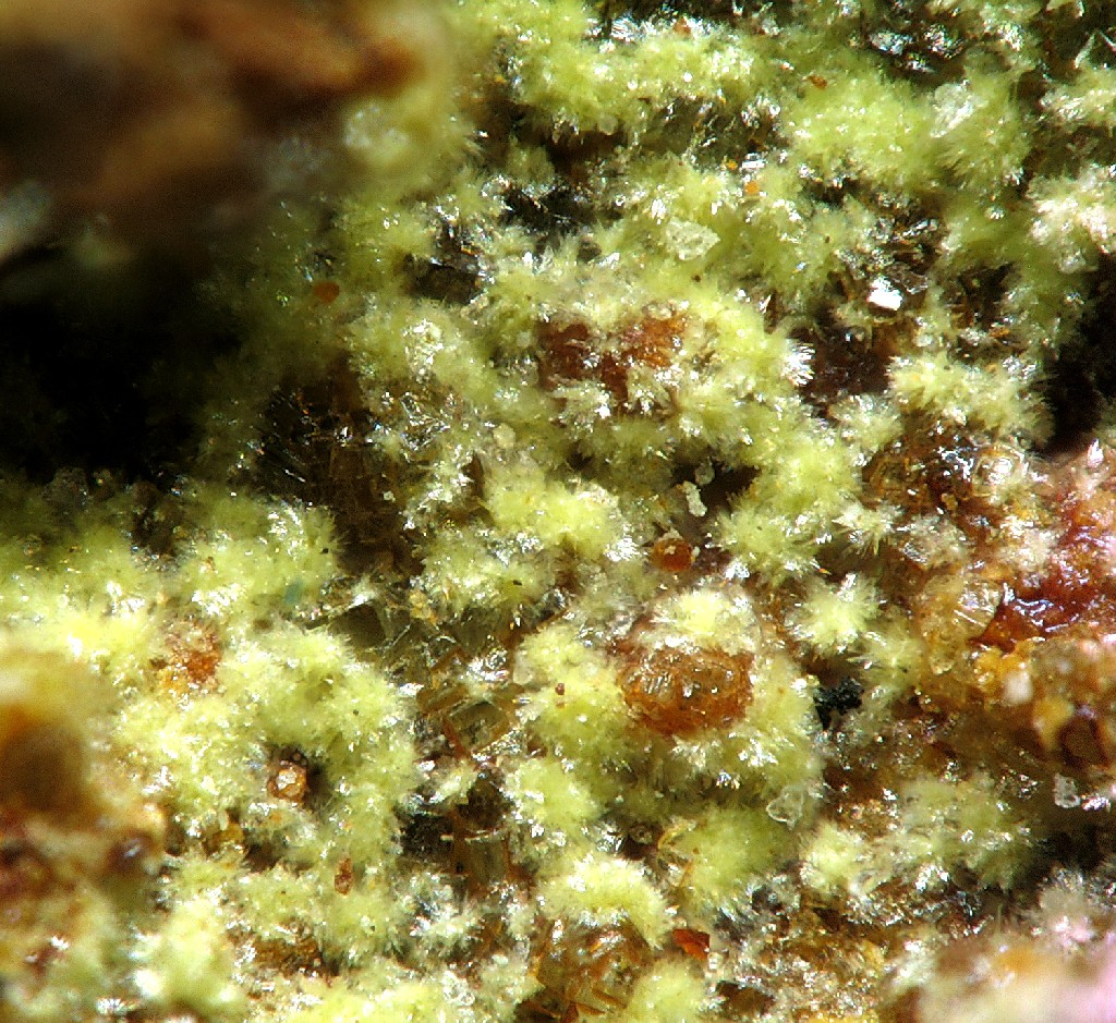 Barahonaite-(Fe) Locality: Dolores prospect, Pastrana, Mazarrón-Águilas, Murcia, Spain (Locality at ) Picture width 0,6 mm. Collection and photograph Christian Rewitzer